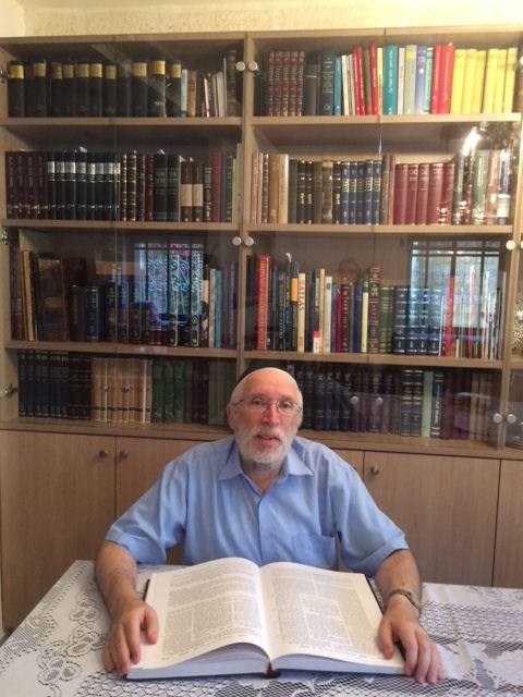 Prof. Yizhak Ahren, psychologist